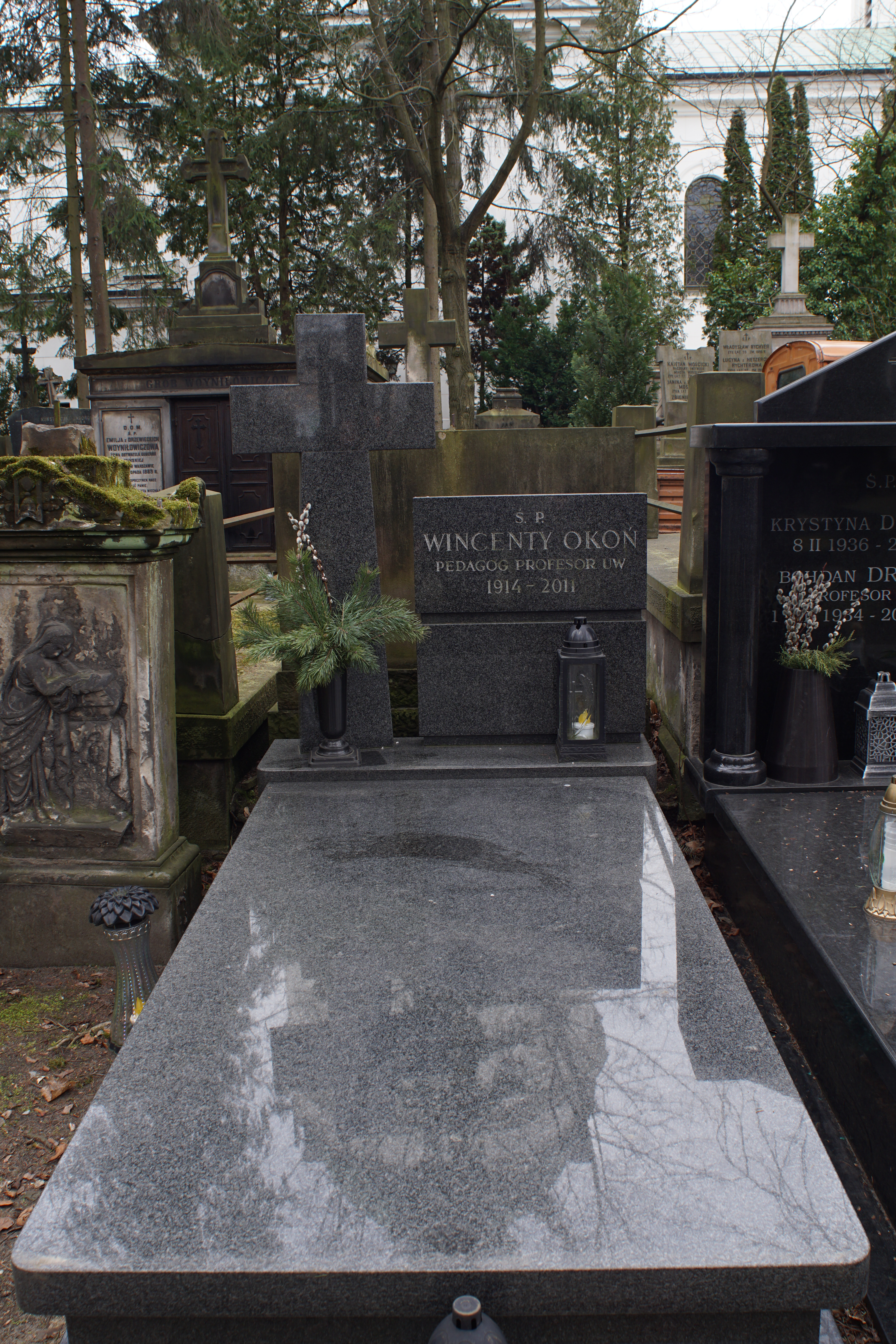 The grave of Wincenty Okoń at the Powązki Cemetery (section 5, row 5, grave 9)